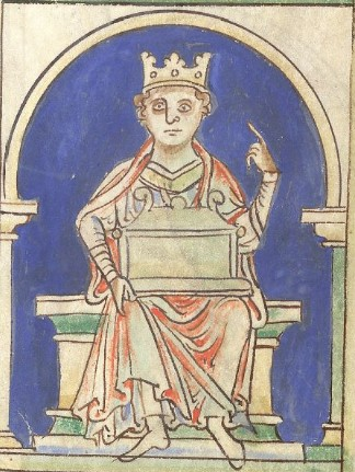 Henry III of England